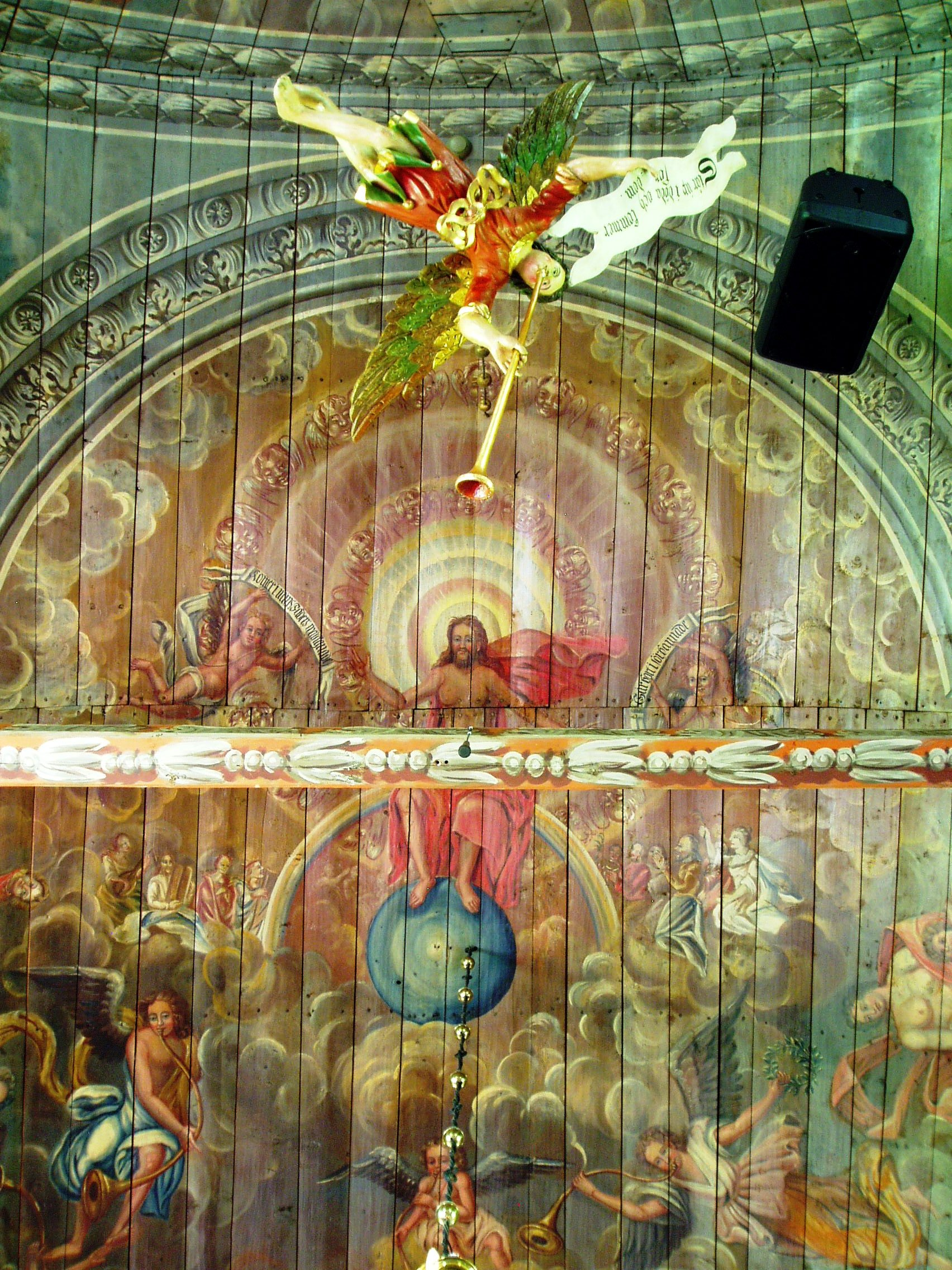 Ceiling in Råda church, Härryda municipality, Sweden